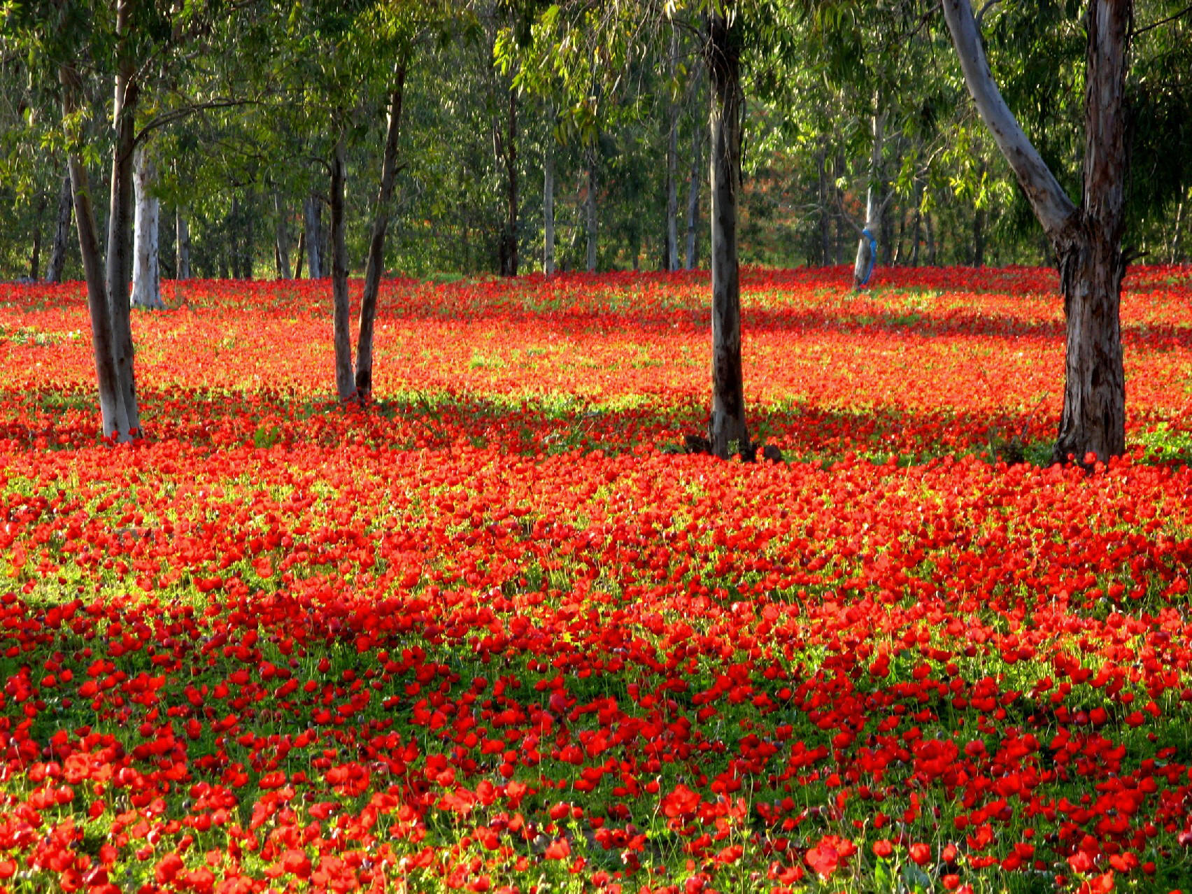 Plants of Israel